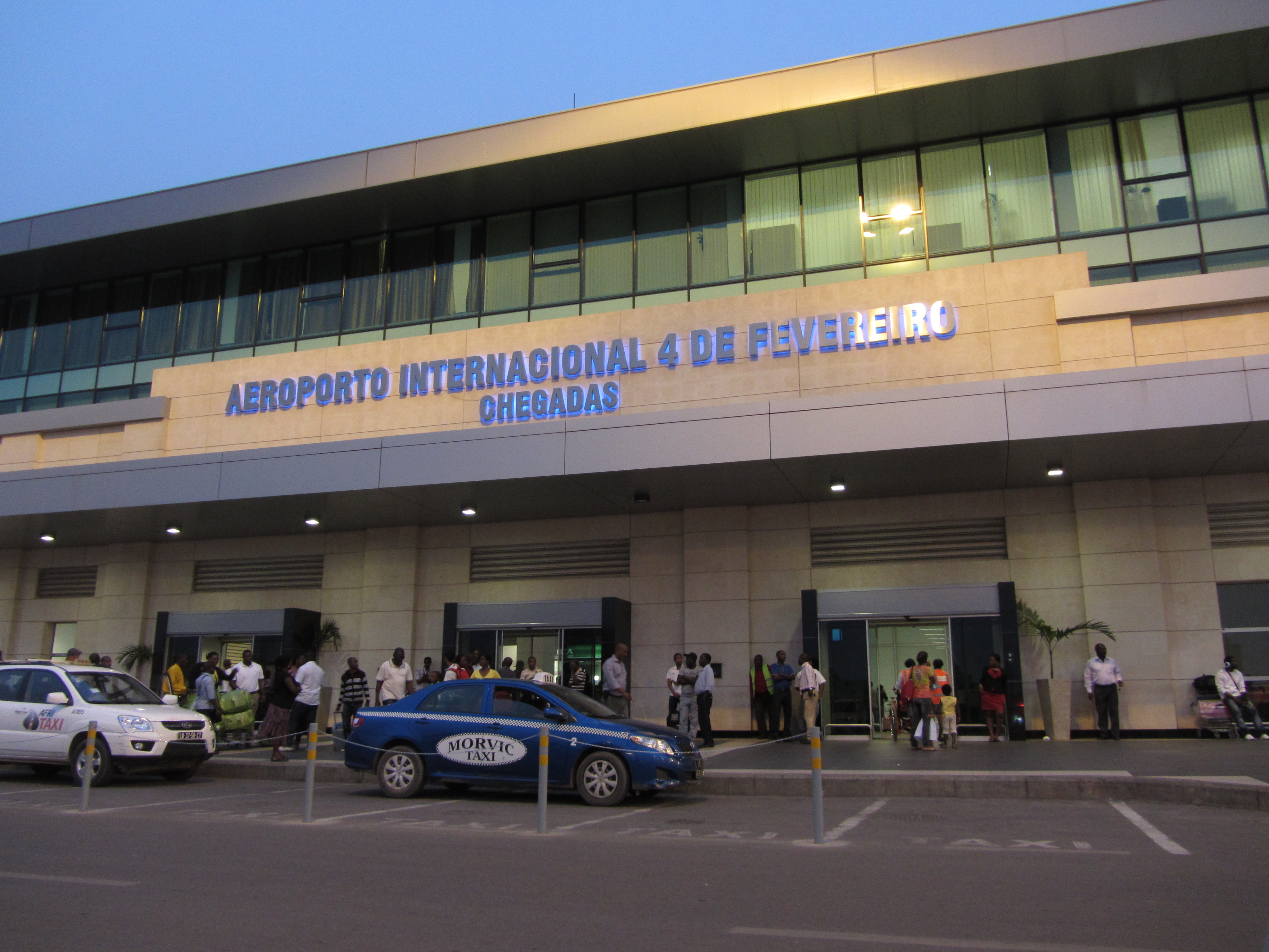 Outside the arrivals building of the Luanda airport "4 de Fevereiro"